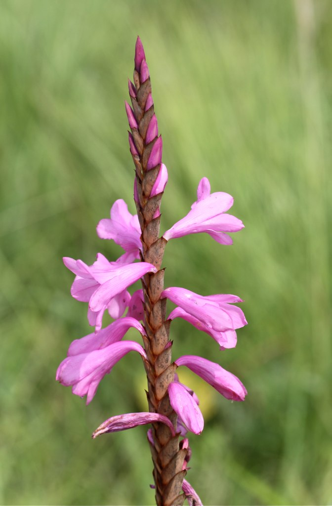 South Africa, Vernon Crookes Nature Reserve